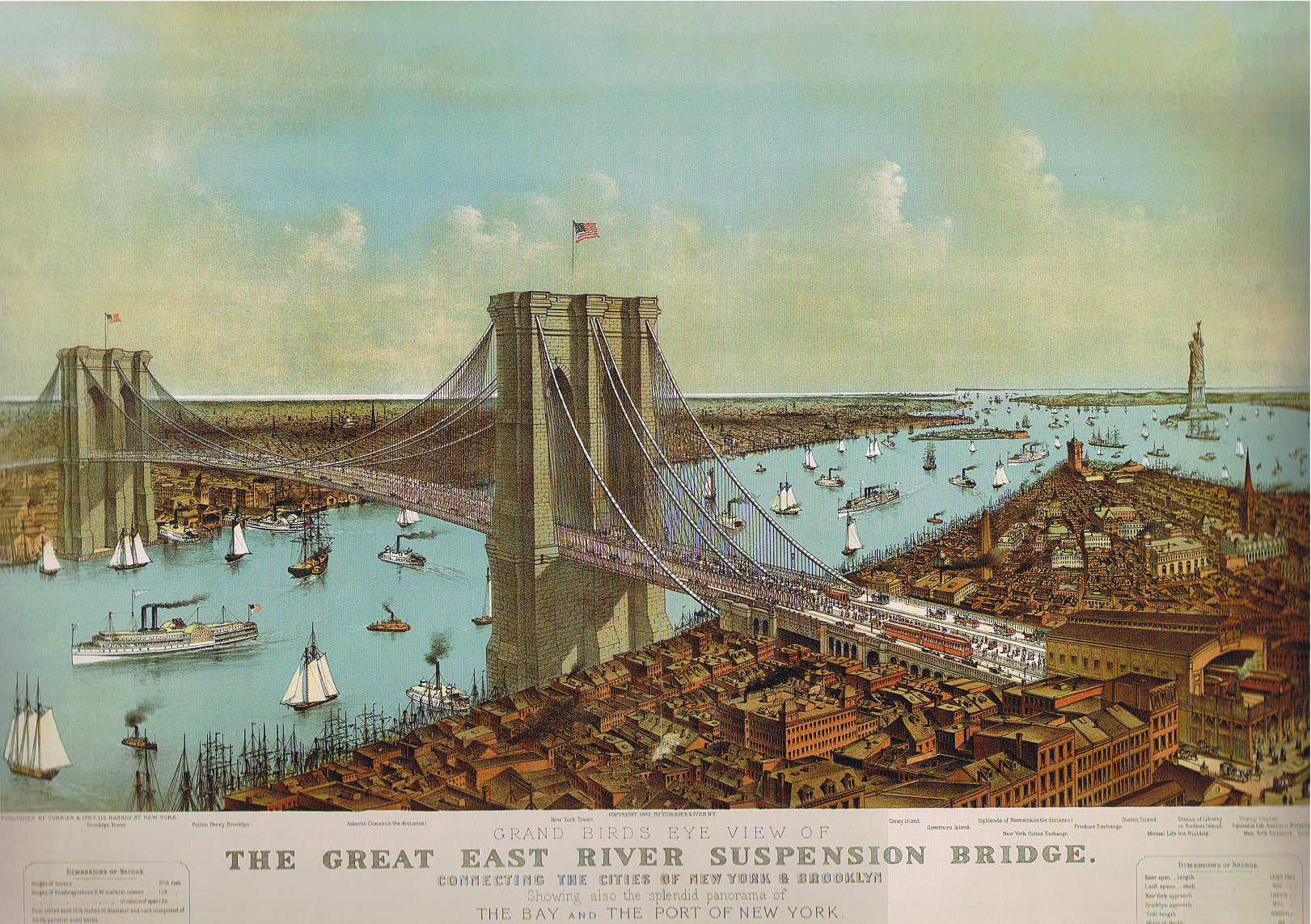 "The Great East River Suspension Bridge" (Brooklyn Bridge)